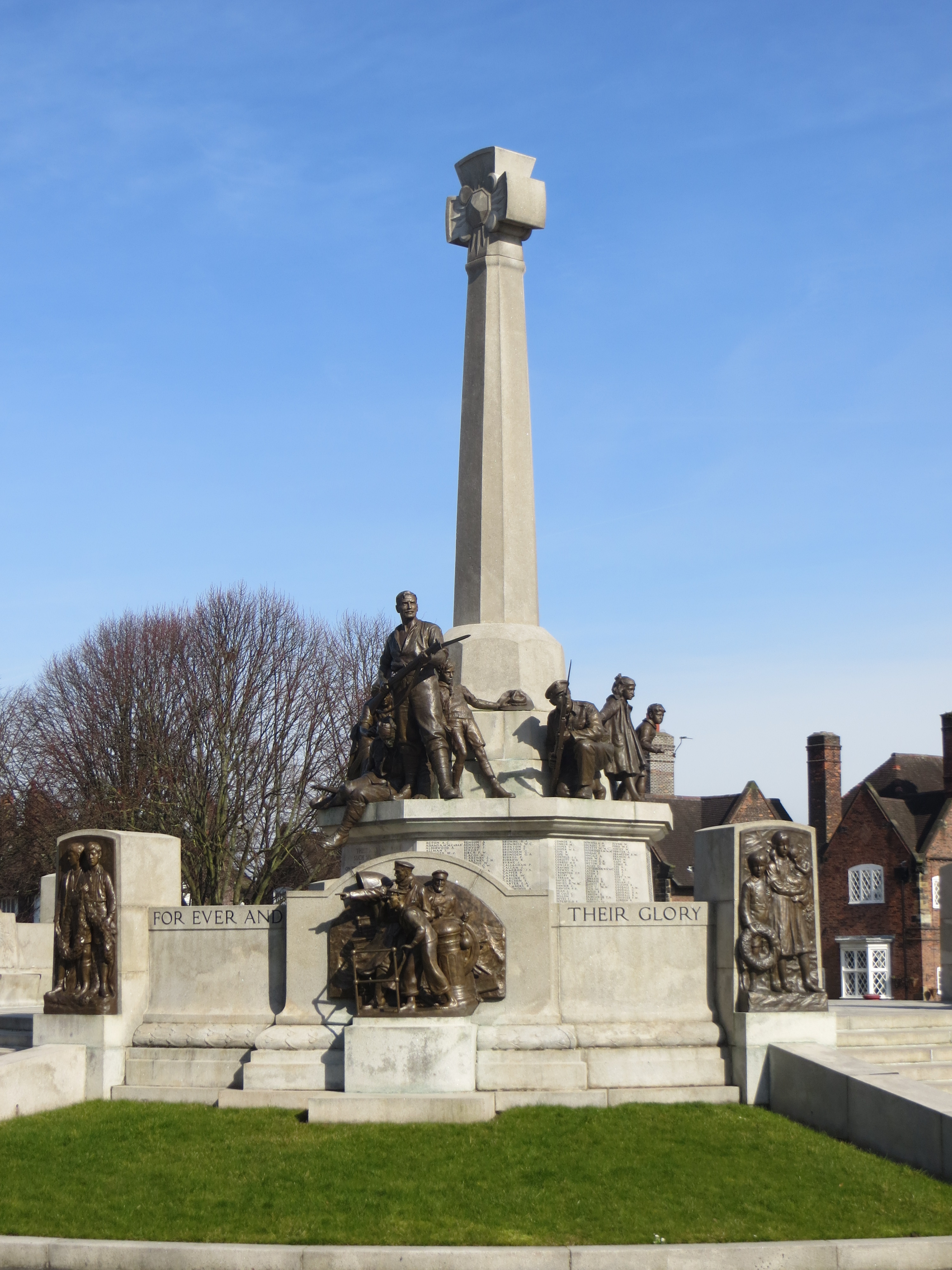 Port Sunlight